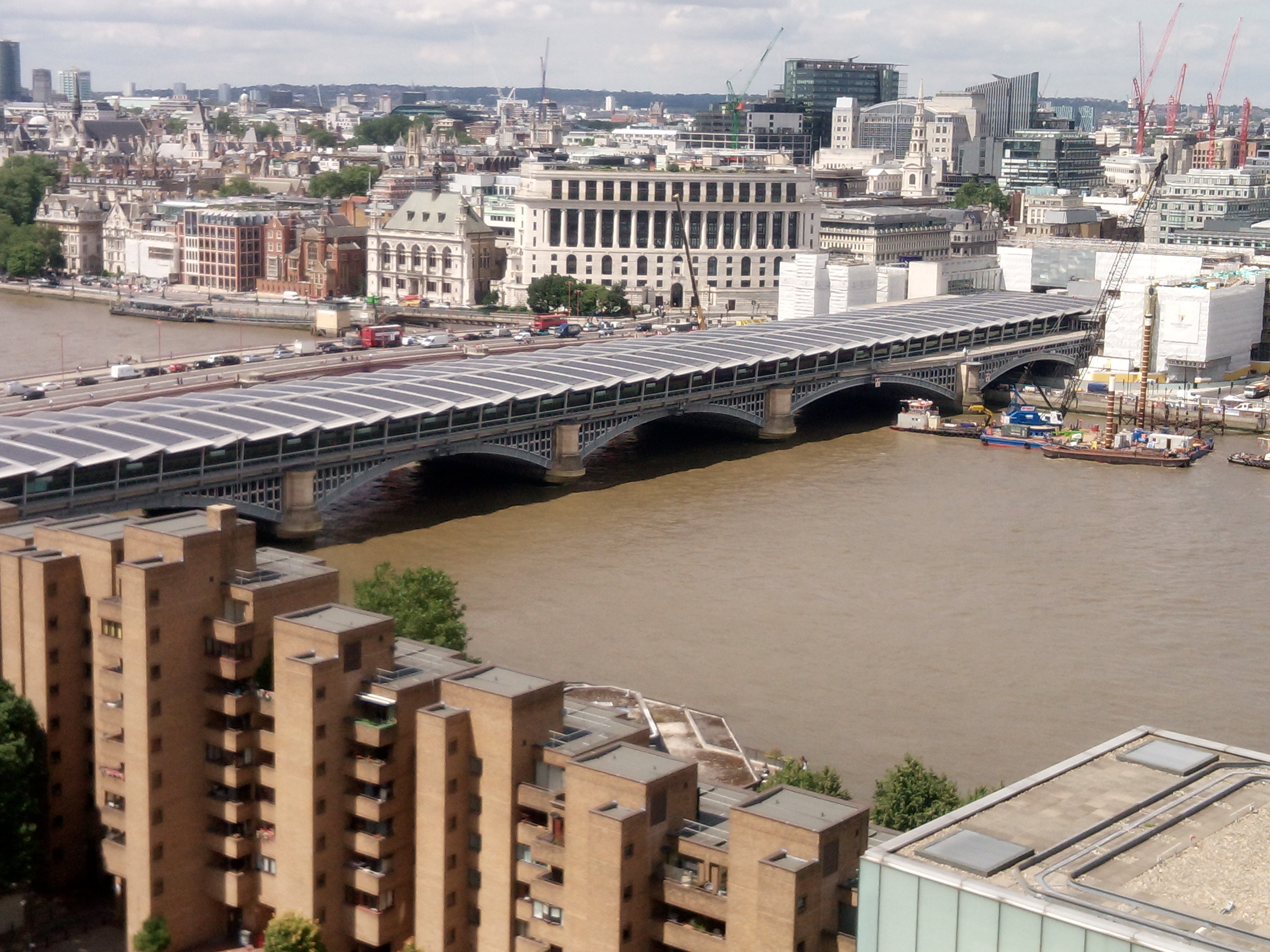 The new London Blackfriars Station stretches across the Thames with entrances on both the south and north banks. The roof is covered with solar panels to generate electricity.